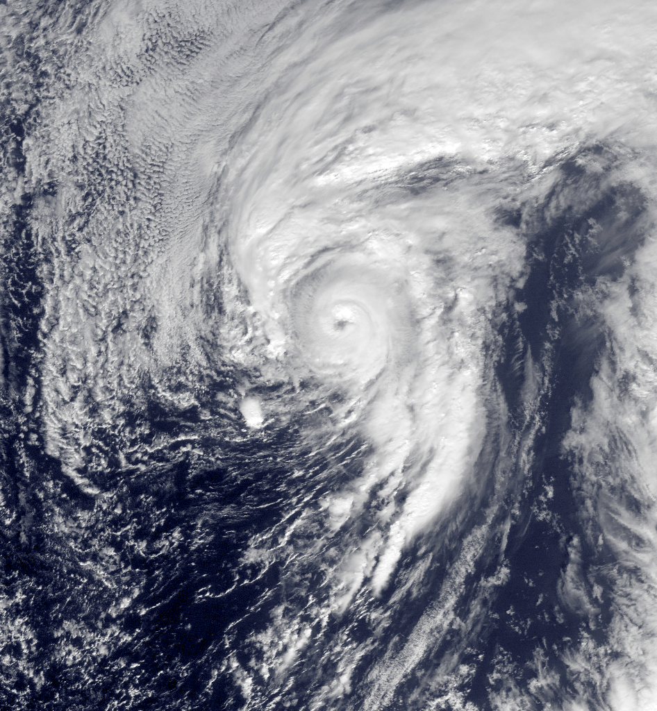 Hurricane Alex on January 14, 2016